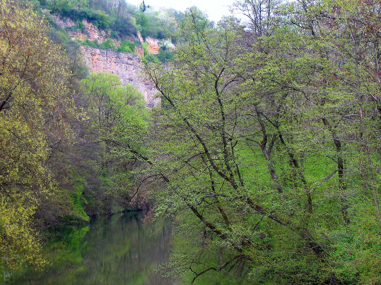 Rems river near by the junction with Remseck river, Baden-Württemberg